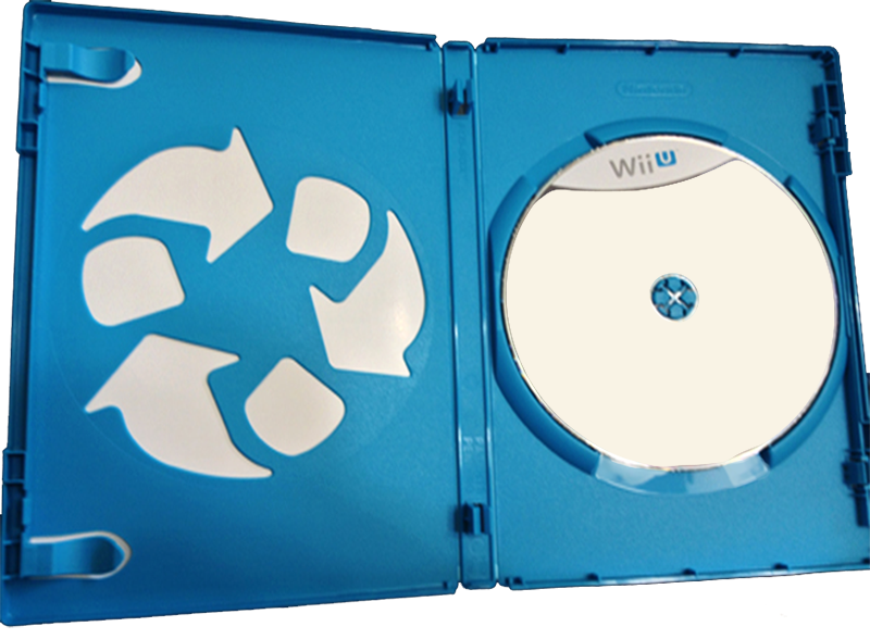 A Wii U game case